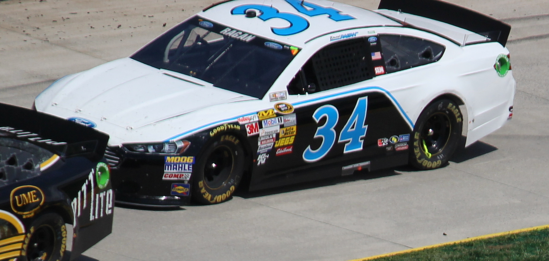 David Ragan competes in the 2013 STP Gas Booster 500.